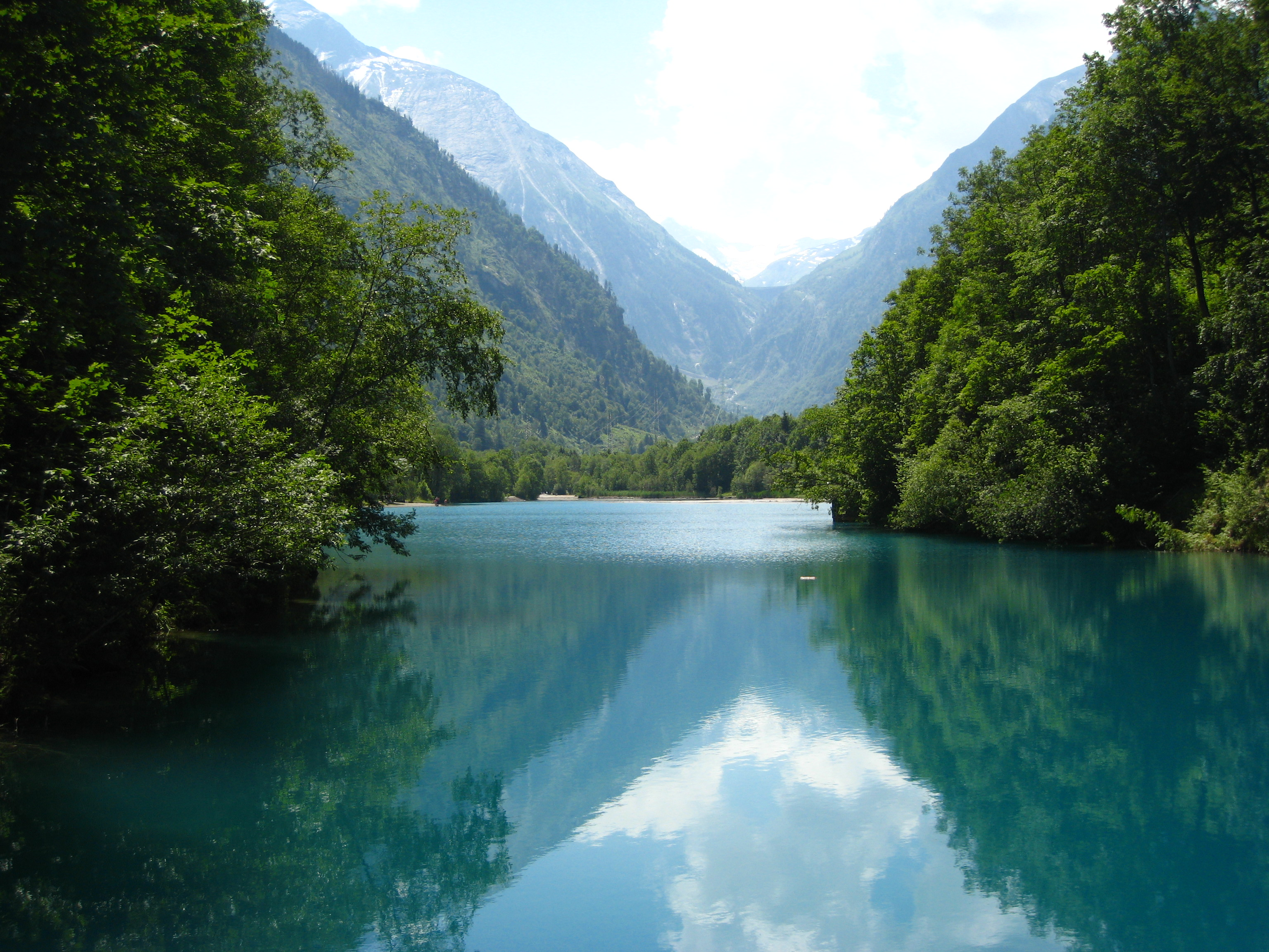 Austria - Kaprun - Klammsee